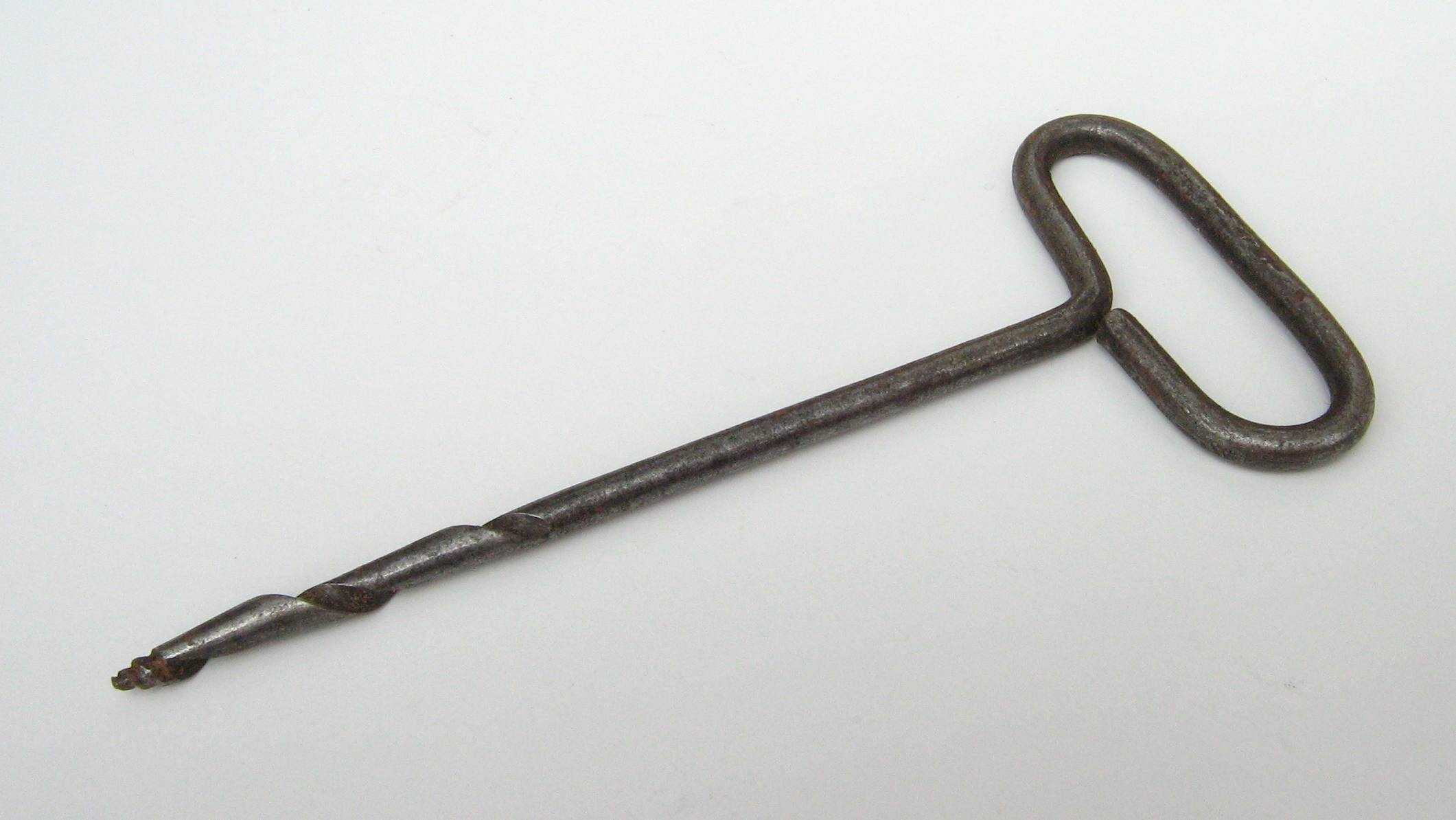 Very simple manual 'drill'.